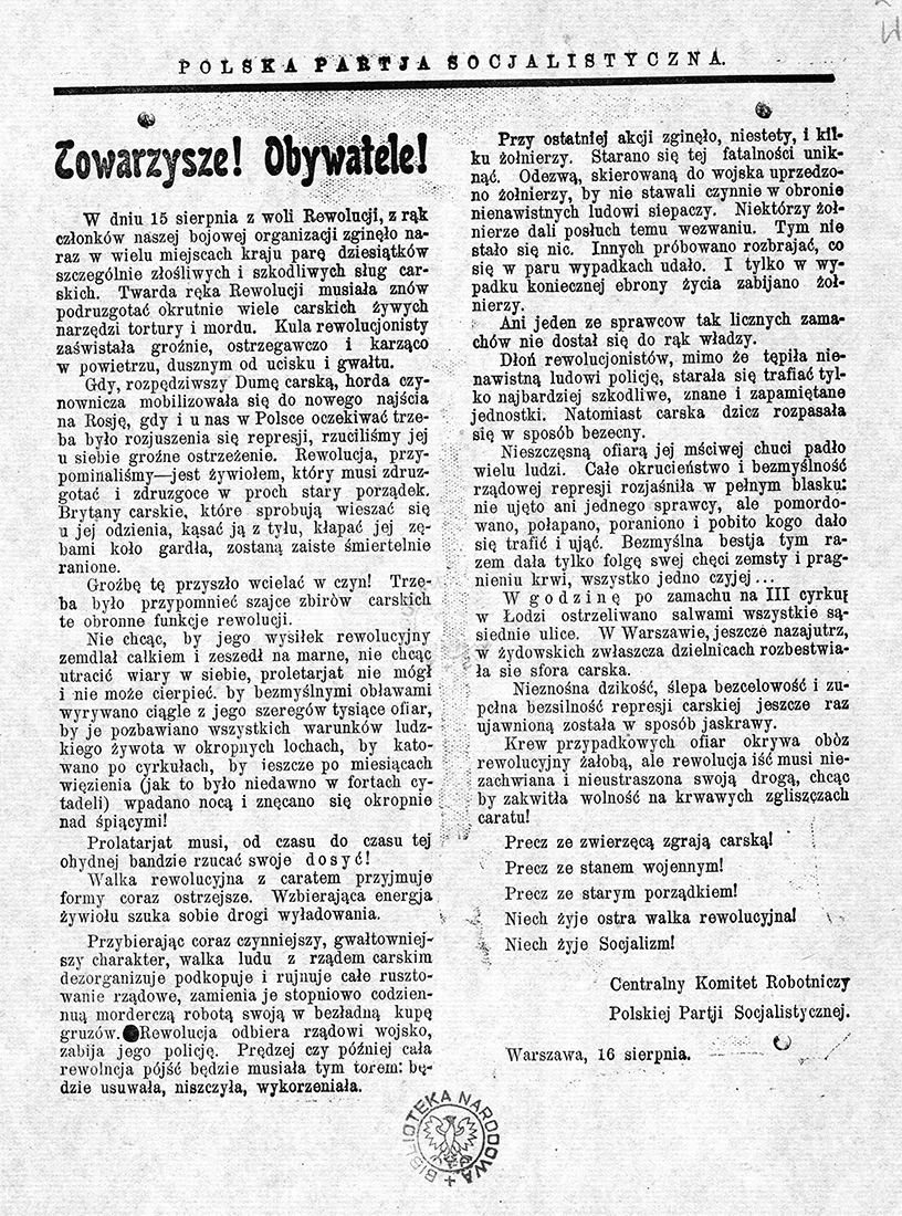 The proclamation issued by the Polish Socialist Party after the so-called Bloody Wednesday, August 16th 1906.